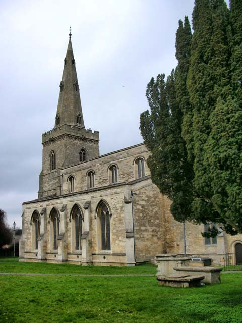 Church of St James, Thrapston. Americans are attracted to this Church by a stone tablet bearing the arms of Sir John Washington - three stars and stripes from which came the American flag. Sir John was brother of Laurence Washington whose son John emigrated to America and became the great-grandfather of the President.